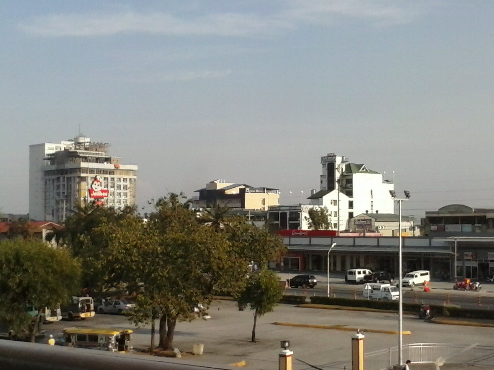 Skyline of Angeles city with Penthouse and central park hotel